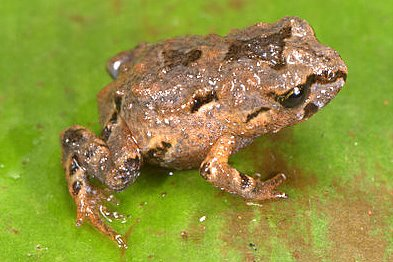 Bryophryne hanssaueri